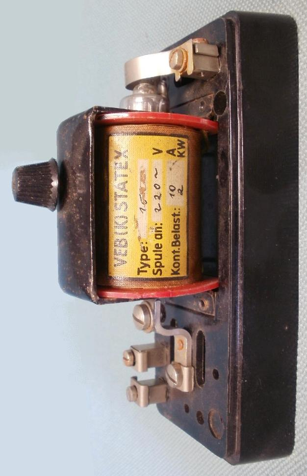 mercury relay in vertical position (necessary), dust cap removed, 135mm high